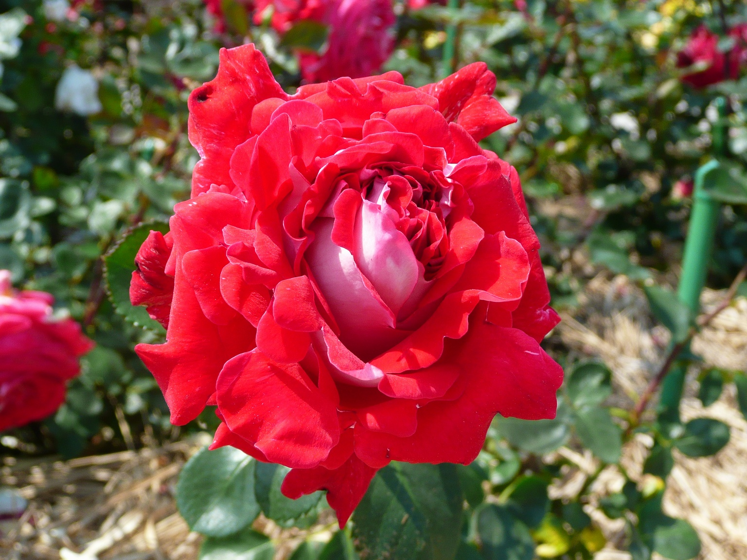 Rose 'Princess Kanoya' in The Kanoya Rose Garden (Kanoya City, Kagoshima, Japan)